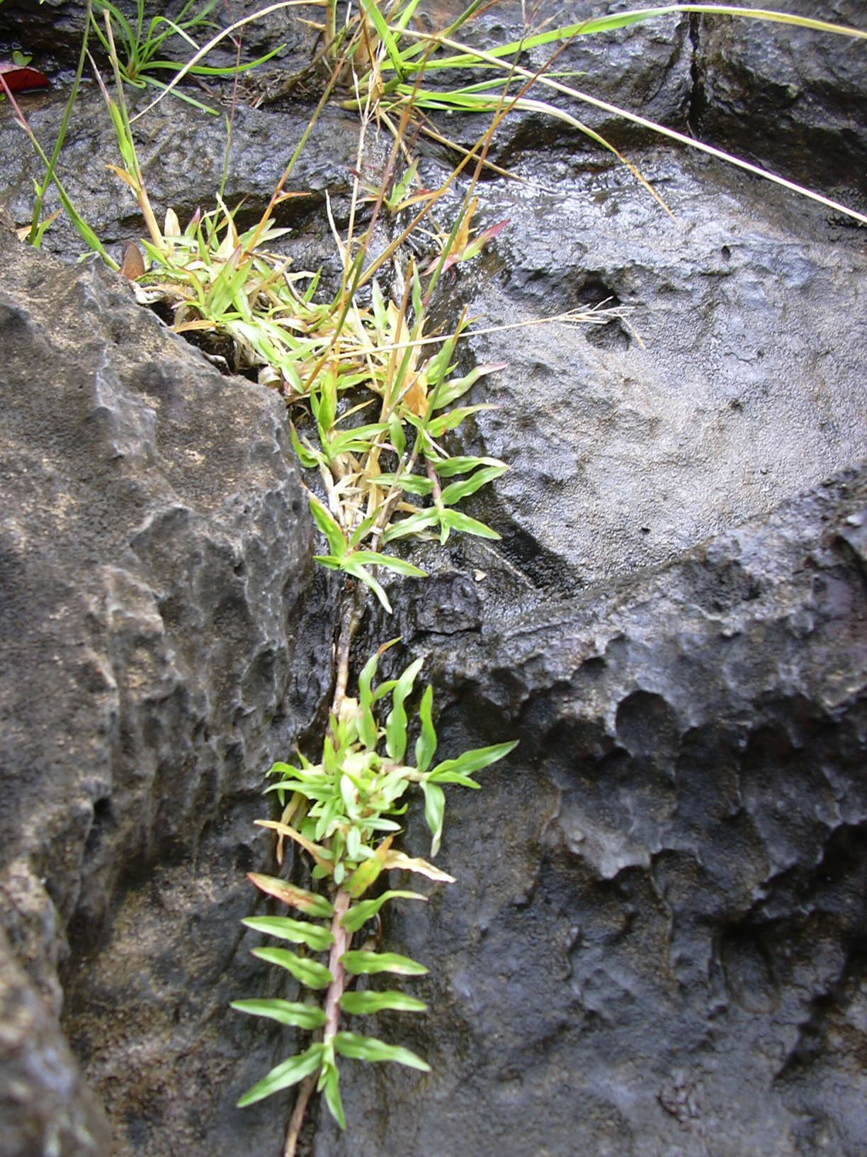 Chrysopogon aciculatus (habit). Location: Maui, Kopiliula